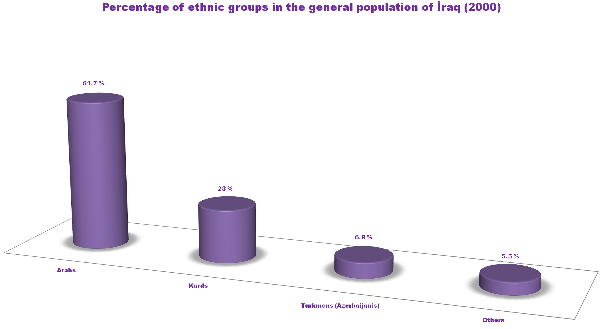 Percentage of ethnic groups in the general population of Iraq (2000)